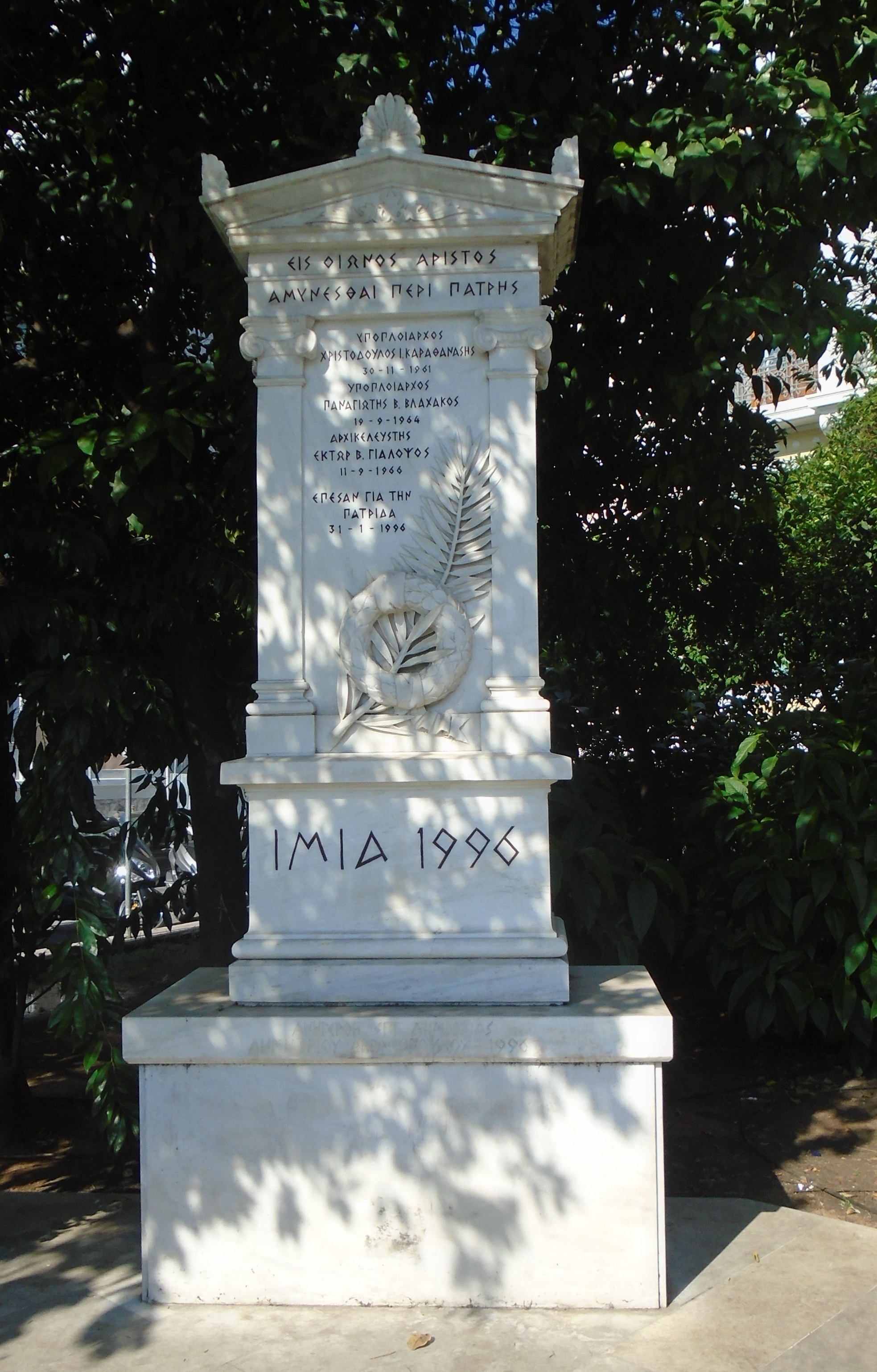 In 1996 a military conflict occured between Greek and Turkish forces around the small islands of Imia. 3 Greek officers were killed when their helicopter crashed in the sea. Their memorial is in central Athens.